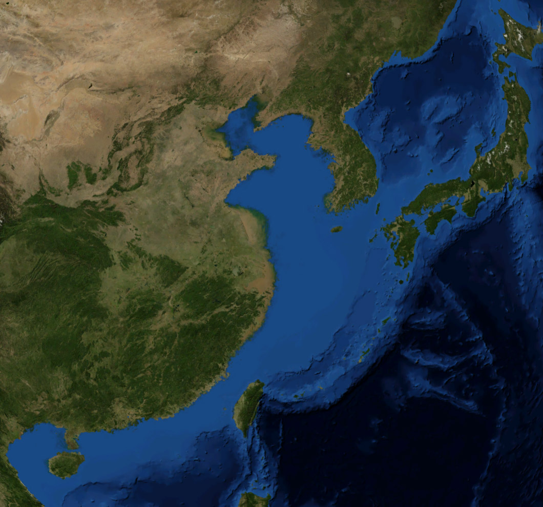 Satellite Picture of the East China Sea